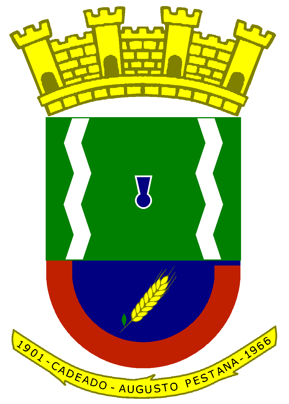 Coat of arms of the City of Augusto Pestana, Rio Grande do Sul, Brazil